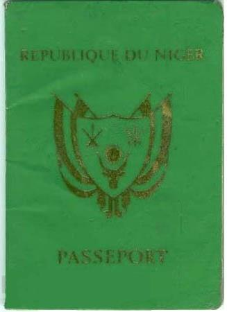 This is the Passport of Niger